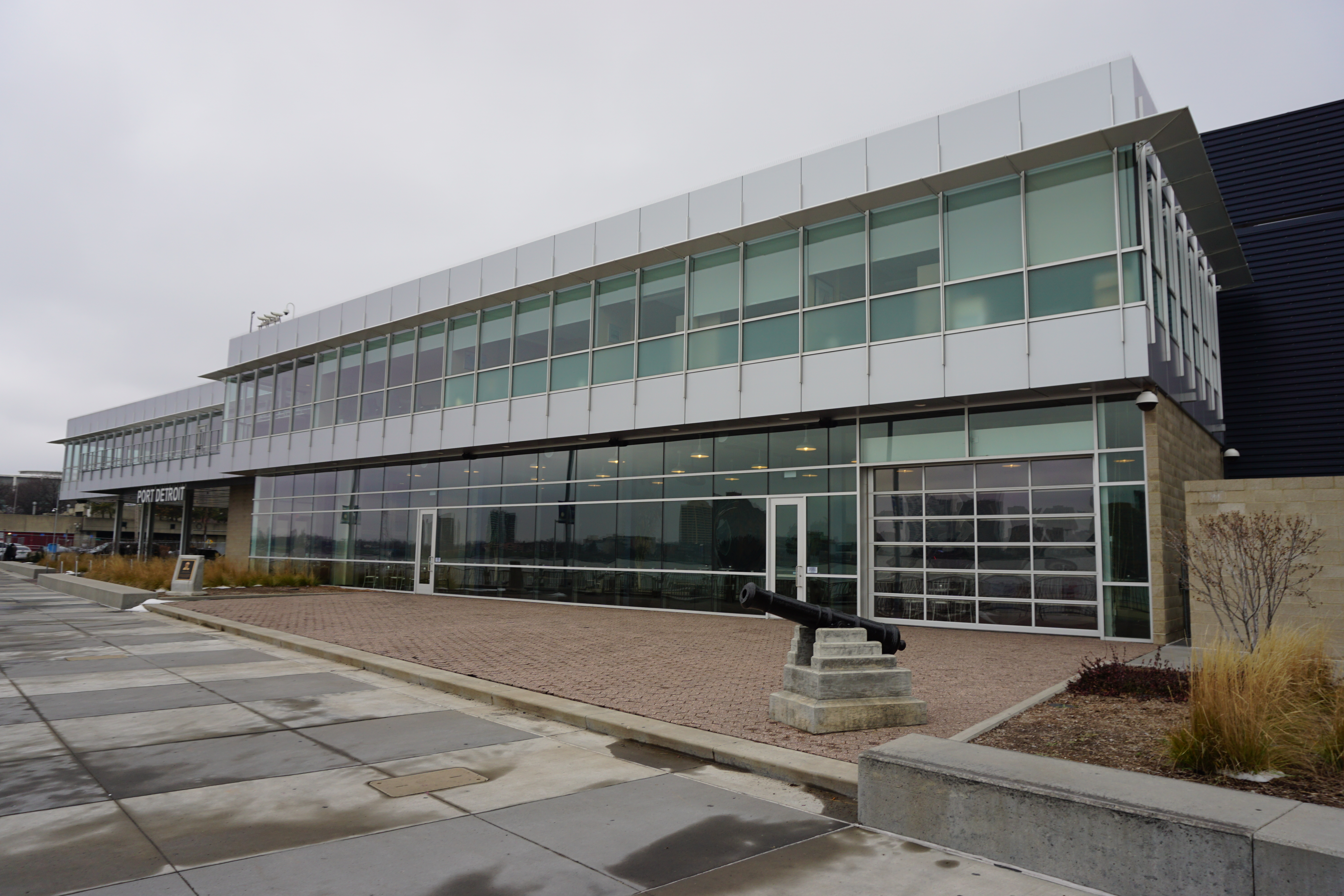 Port Detroit in Detroit, Michigan (United States).